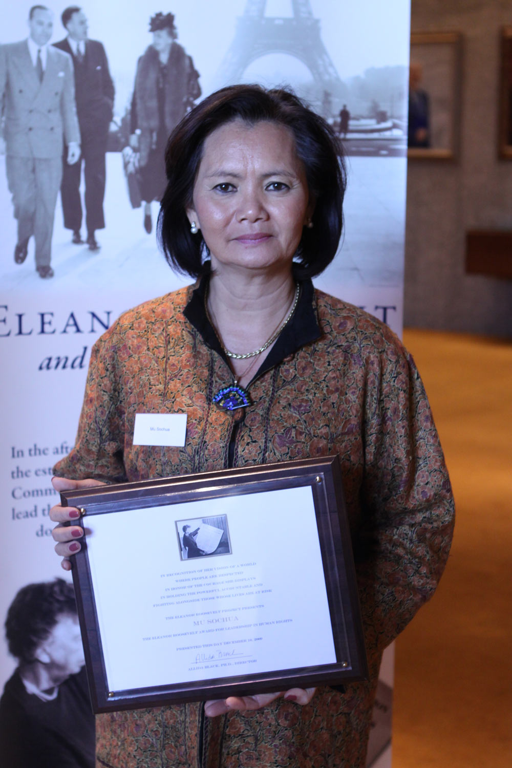 Mou Sochua with the Eleanor Roosevelt Award for leadership in human rights after it was presented to her on Opening Day of the Courage to Lead Summit in Geneva, Switzerland, December 8, 2009. The Courage to Lead: A Human Rights Summit for Women Leaders, December 8-10, 2009. The Courage to Lead Summit brought together experienced and emerging human rights leaders from over thirty countries to share and build on their experiences and to promote mentoring and collaboration among women who play a key role in promoting human rights worldwide. The conference is organized by The Eleanor Roosevelt Project of the George Washington University and Vital Voices Global Partnership with support from the U.S. Department of State, the Office of the High Commissioner for Human Rights and the International Labour Organization. The Conference of NGOs in Consultative Relationship with the United Nations (CoNGO) coordinated logistics for the event. Morning sessions of the December 8-10 summit at the ILO are also open to the public. US Mission Photo: Photo by Eric Bridiers